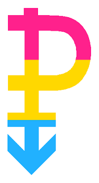 Pansexual symbol